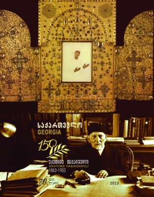 Stamps of Georgia, 2013